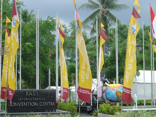 Flags at the enterance of the 2007 United Nations Climate Change Conference.